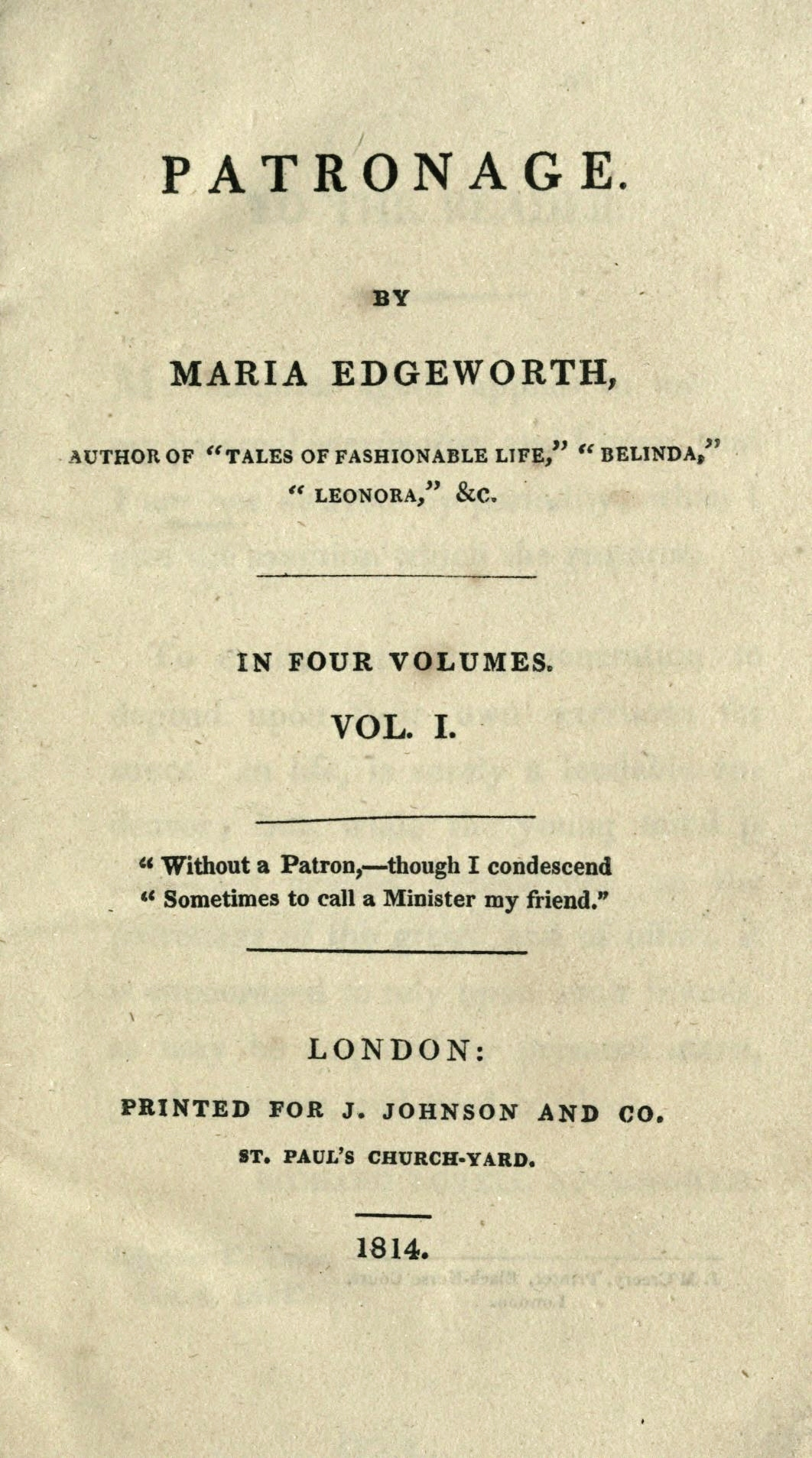 1st edition title page